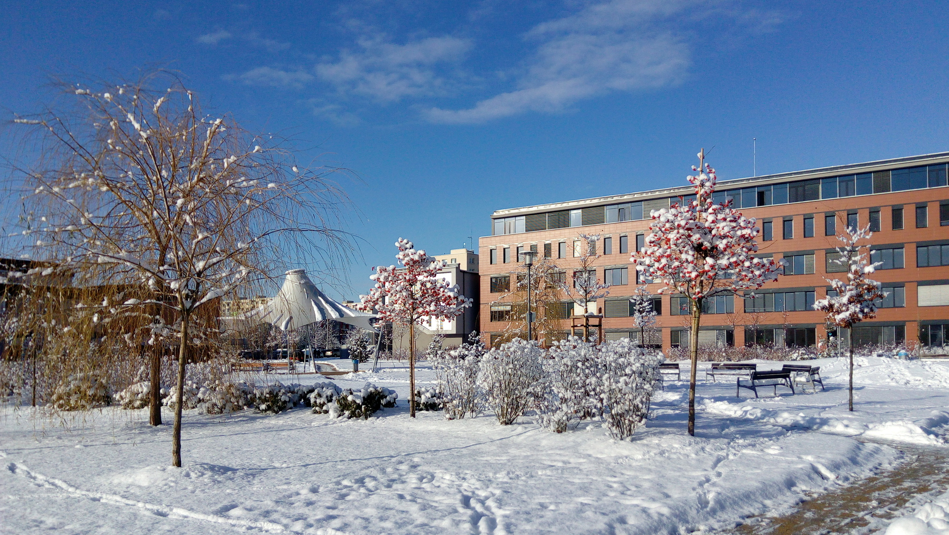 Campus of the University of South Bohemia in winter 2018